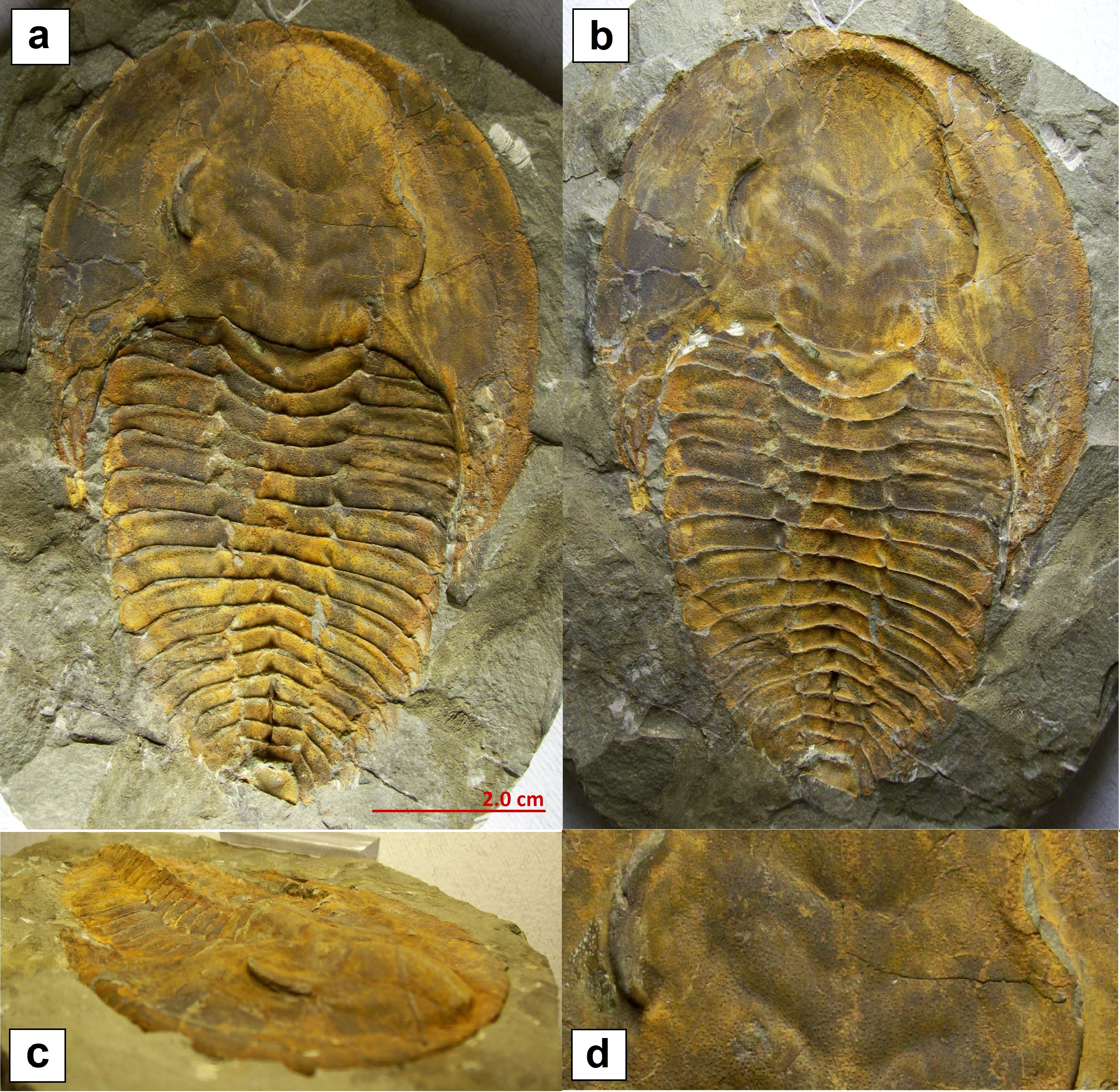 Cambropallas telesto GEYER. Specimen from Jbel Ougnate (Anti Atlas, Morocco), Jbel Wawrmast Fm.; a) dorsal view (positive); b) dorsal view (negative); c) lateral-frontal view; d) zoom on the glabella region, showing the glabellar furrows and the ocular lobes.